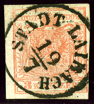 3 kr issue 1850 cancelled at Stadt Laibach Ljubljana Müller postmark: 1438f type RS-f (2)